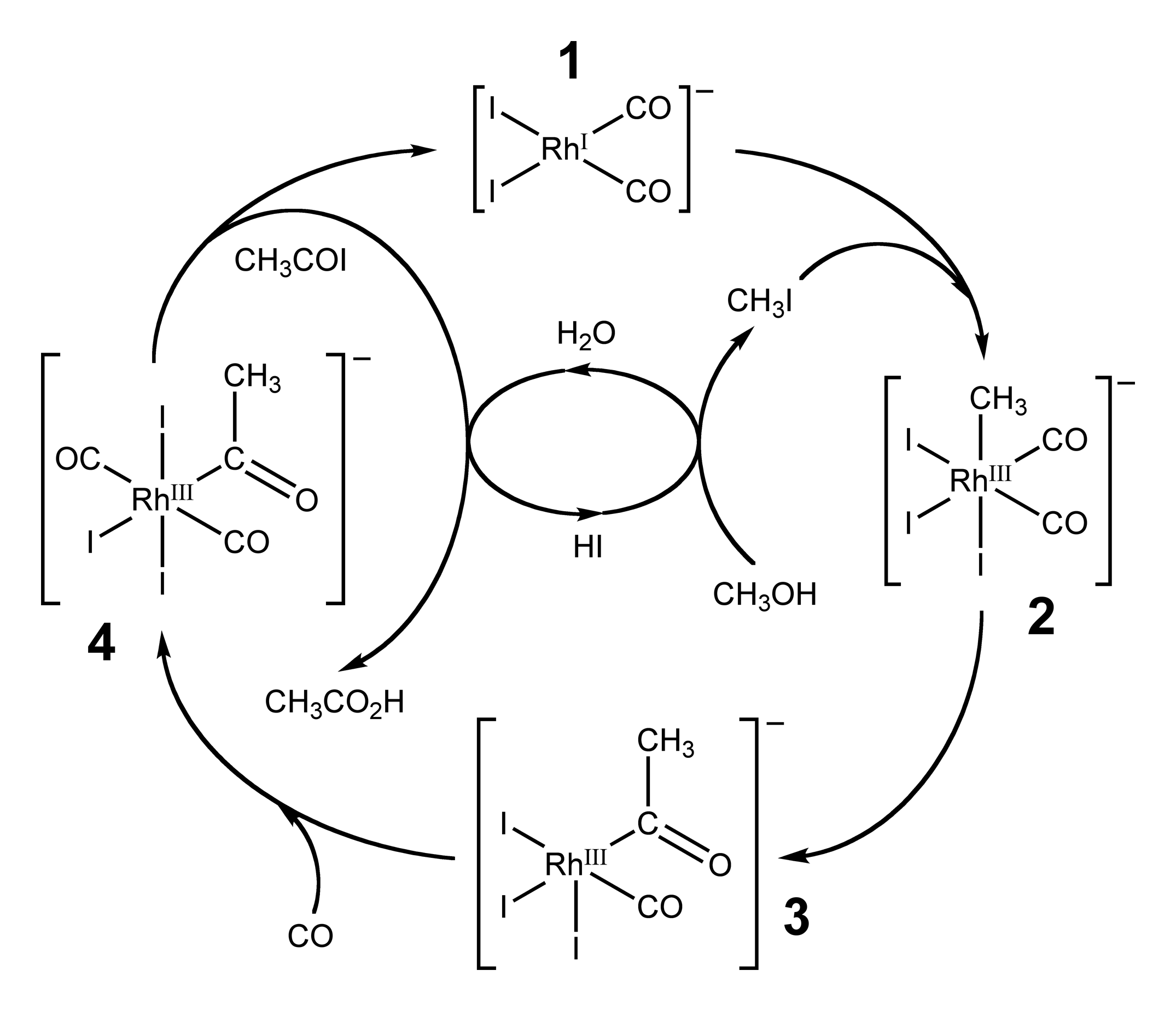 Catalytic cycle of the Monsanto process for the production of acetic acid from methanol and carbon monoxide. Based on a diagram in Platinum Metals Rev. (2000) 44, 94-105.